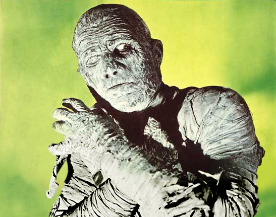 Cropped and edited lobby card for the 1944 film The Mummy's Ghost, featuring Lon Chaney Jr. This image is assumed to be in the public domain, as no copyright notice is in evidence.